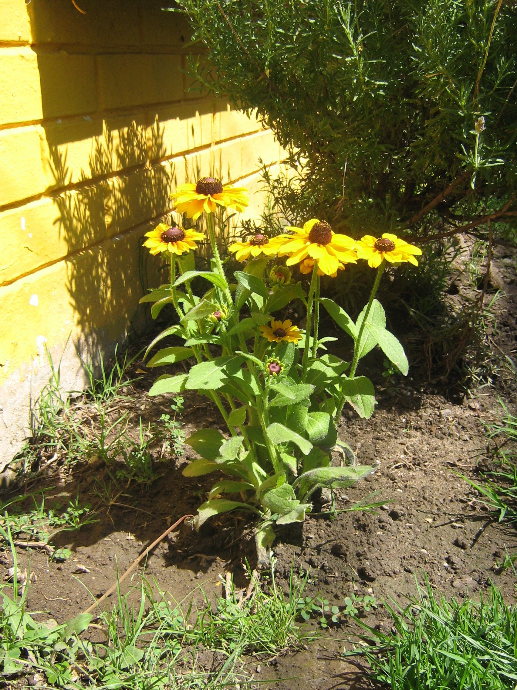 Rudbeckia hirta Asteraceae